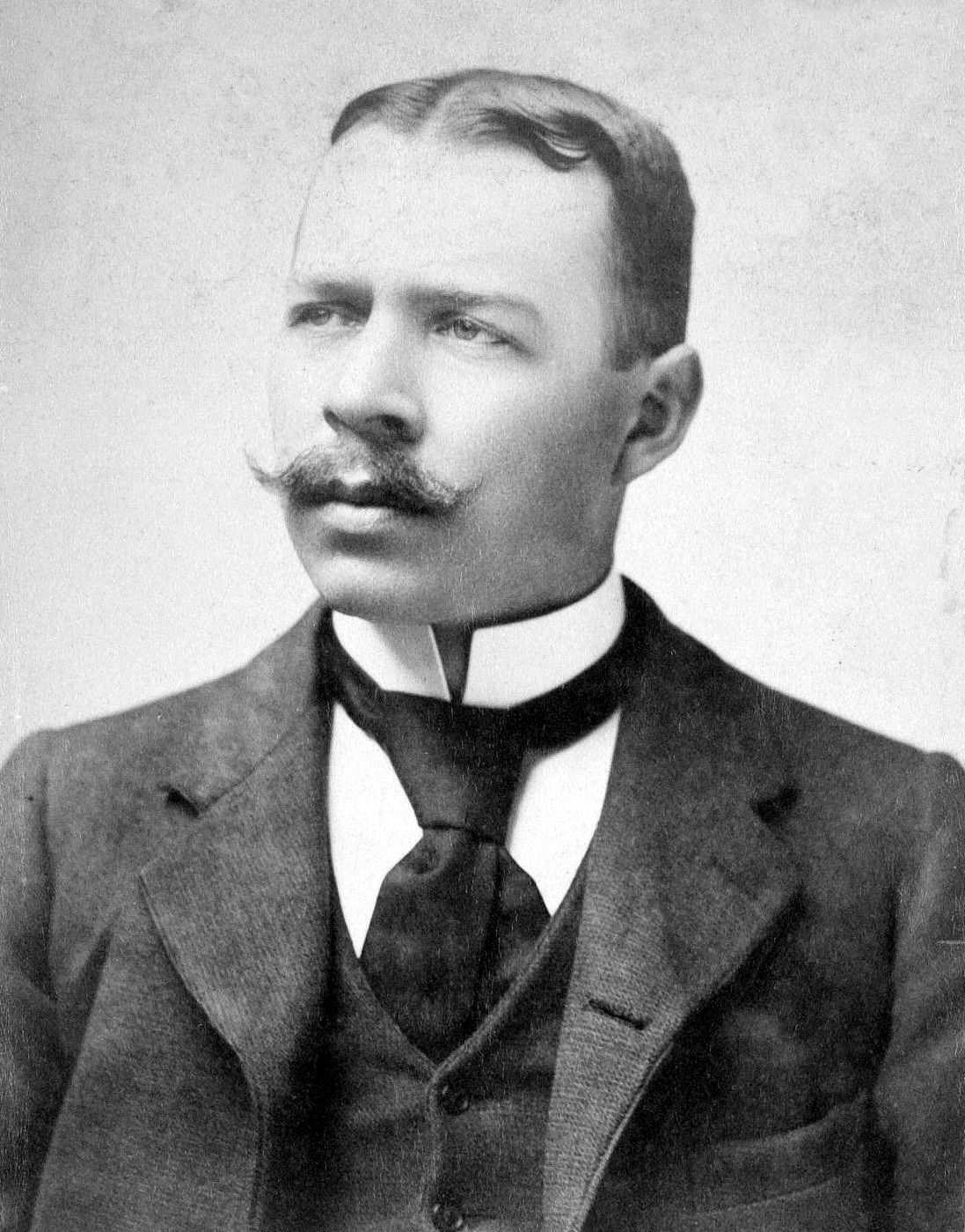 Cabinet card image of Norway-born explorer Carsten Borchgrevink (1864-1934). TCS 1.3184, Harvard Theatre Collection, Harvard University